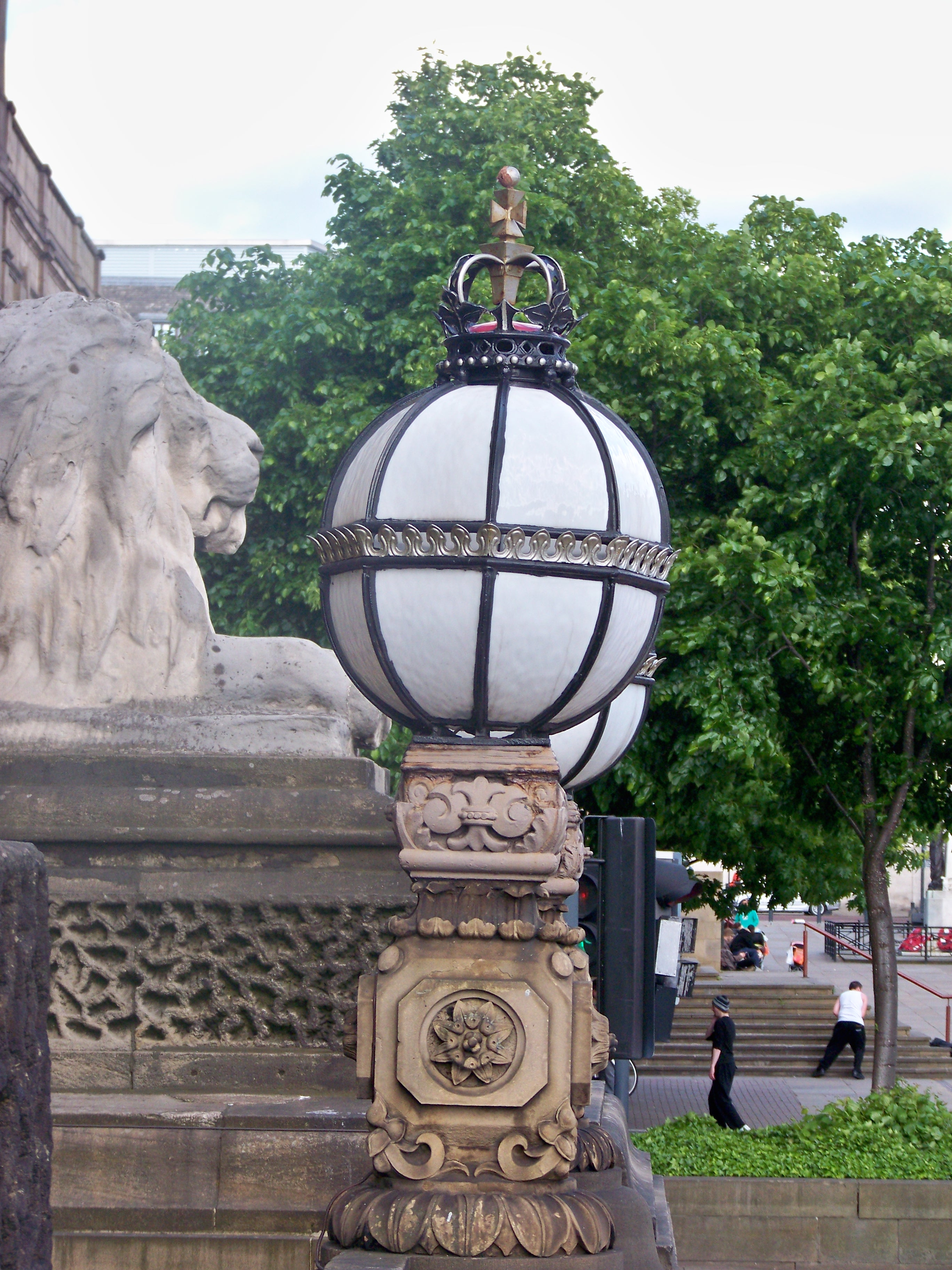 An exterior lamp outside the front of Leeds Town Hall. Taken on the evening of Thursday the 27th of May 2010.